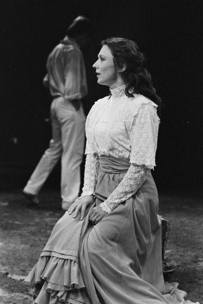 Scene fra Nationaltheaterets oppsetning av Henrik Ibsens "Kjærlighetens Komedie". Forestillingen hadde premiere 1. september 1980. Edith Roger hadde regi, og medvirkende var blant annet Merete Moen og Katja Medbøe som Svanhild og Svein Strula Hungnes som Falk.